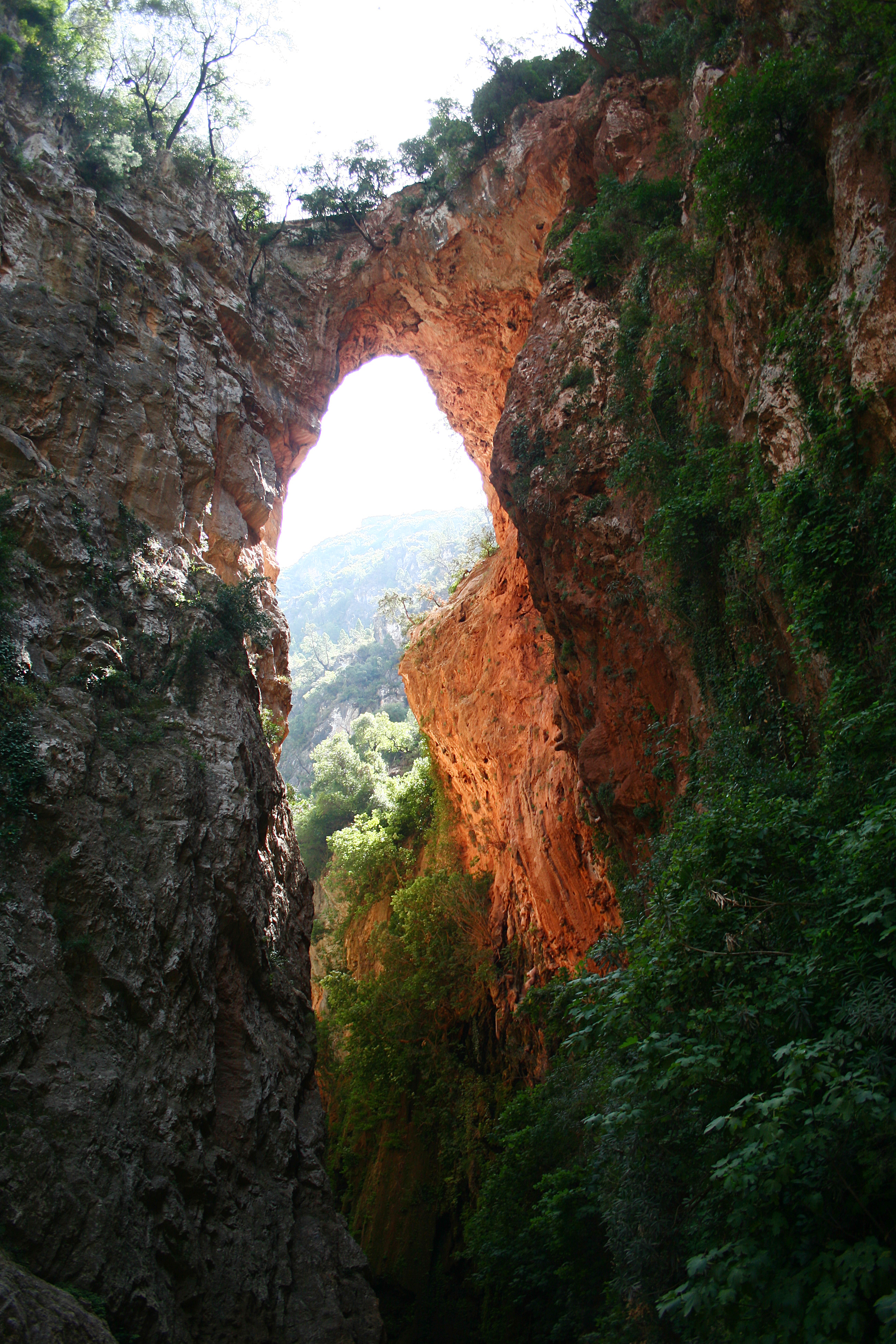 God's Bridge